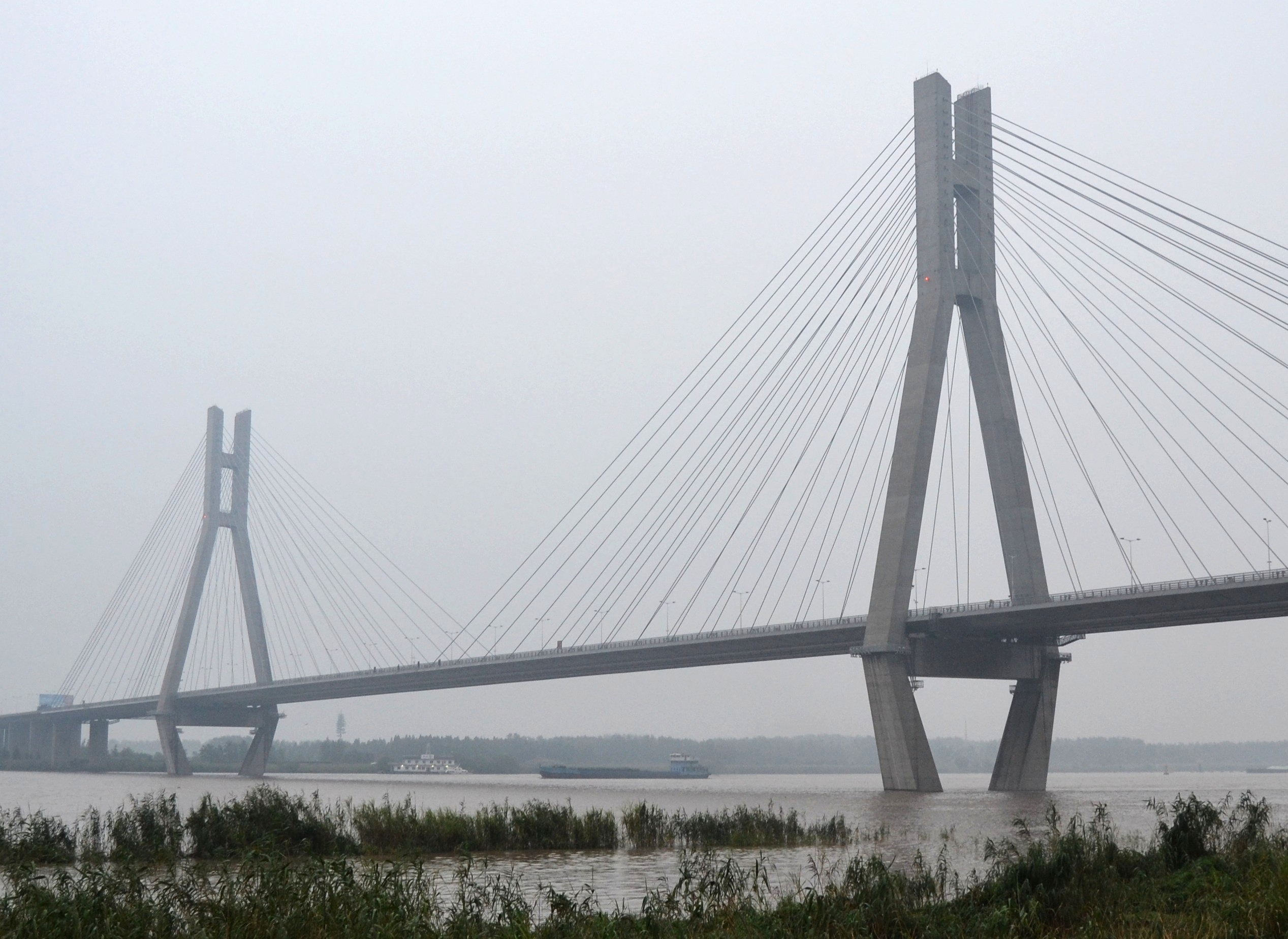 The Runyang North Bridge in Jiangsu Province, China